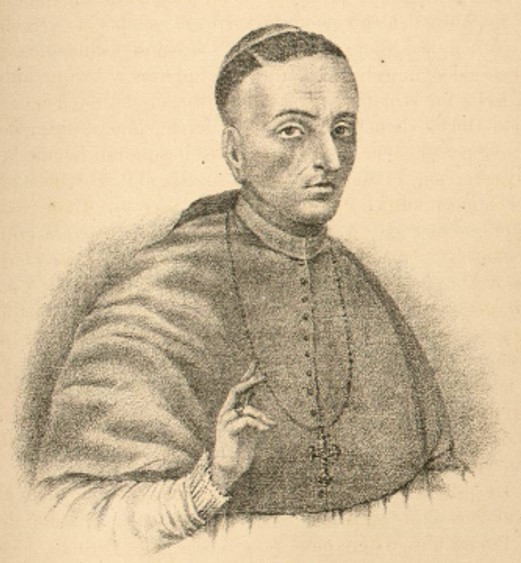 Fray Francisco de Toral. Bishop of Yucatan, Mexico (1562-1571)